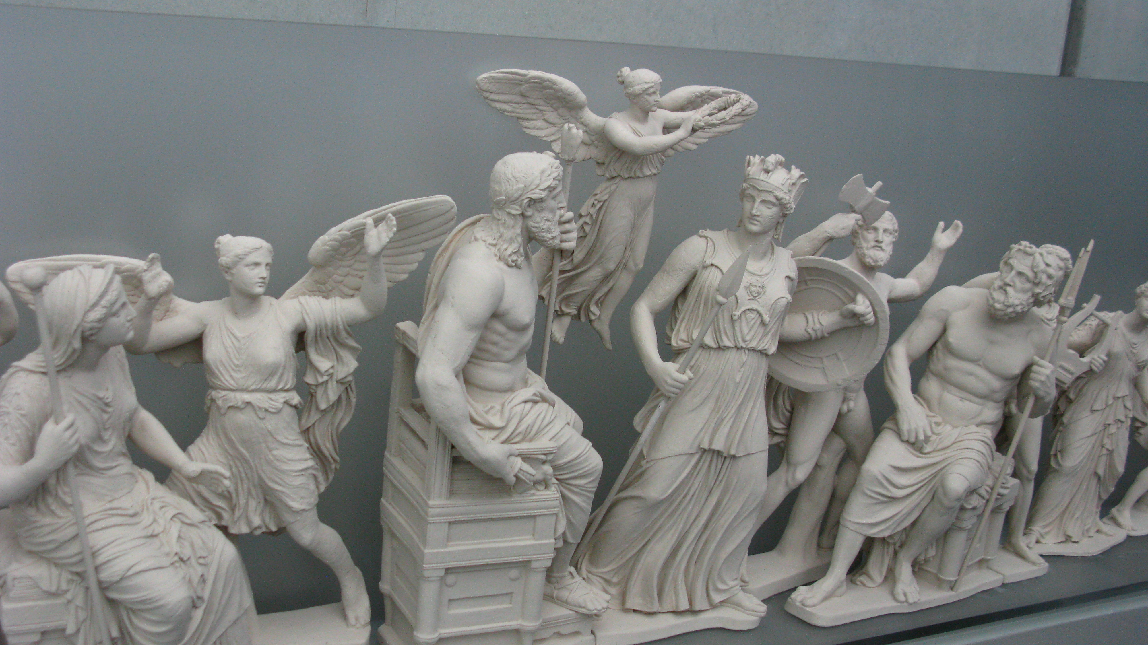 Reconstruction of the east pediment of the Parthenon according to drawing by K. Schwerzek.